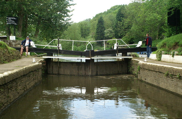 Hanham Lock, Kennet & Avon Canal, nr Keynsham, Somerset